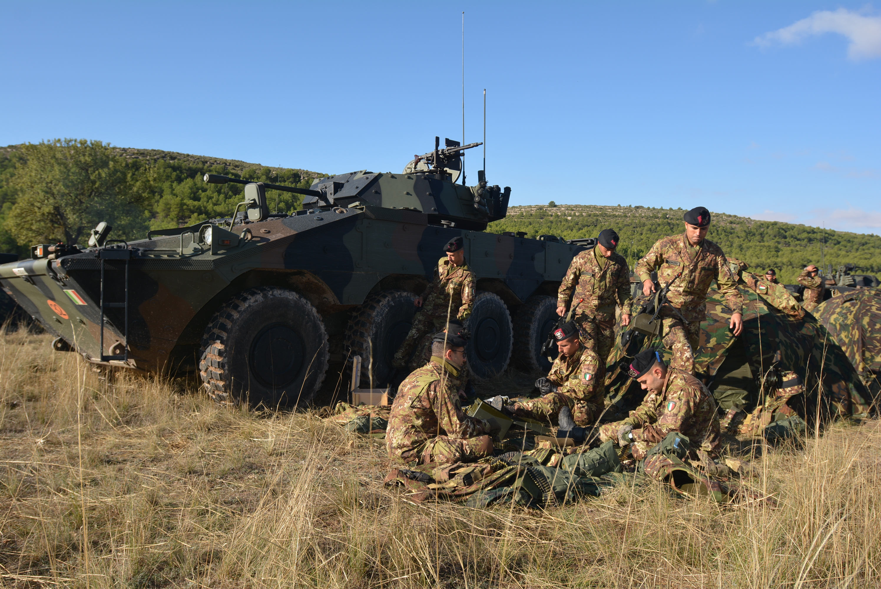 Italian infantrymen (Bersaglieri) at Chinchilla, Spain during NATO exercise Trident Juncture 15.